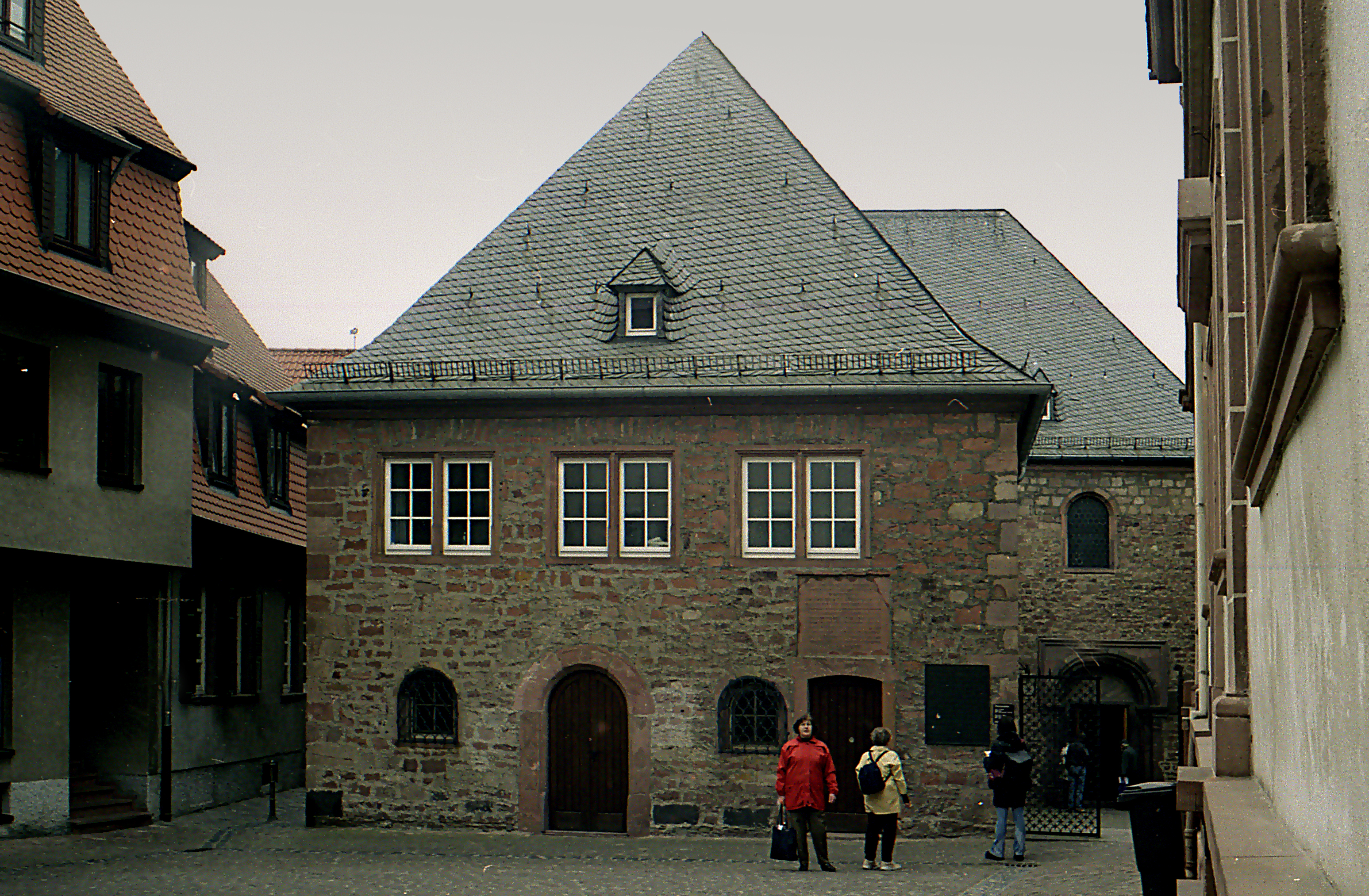 Women's Synagogue, behind on the right the Men's Synagogue.